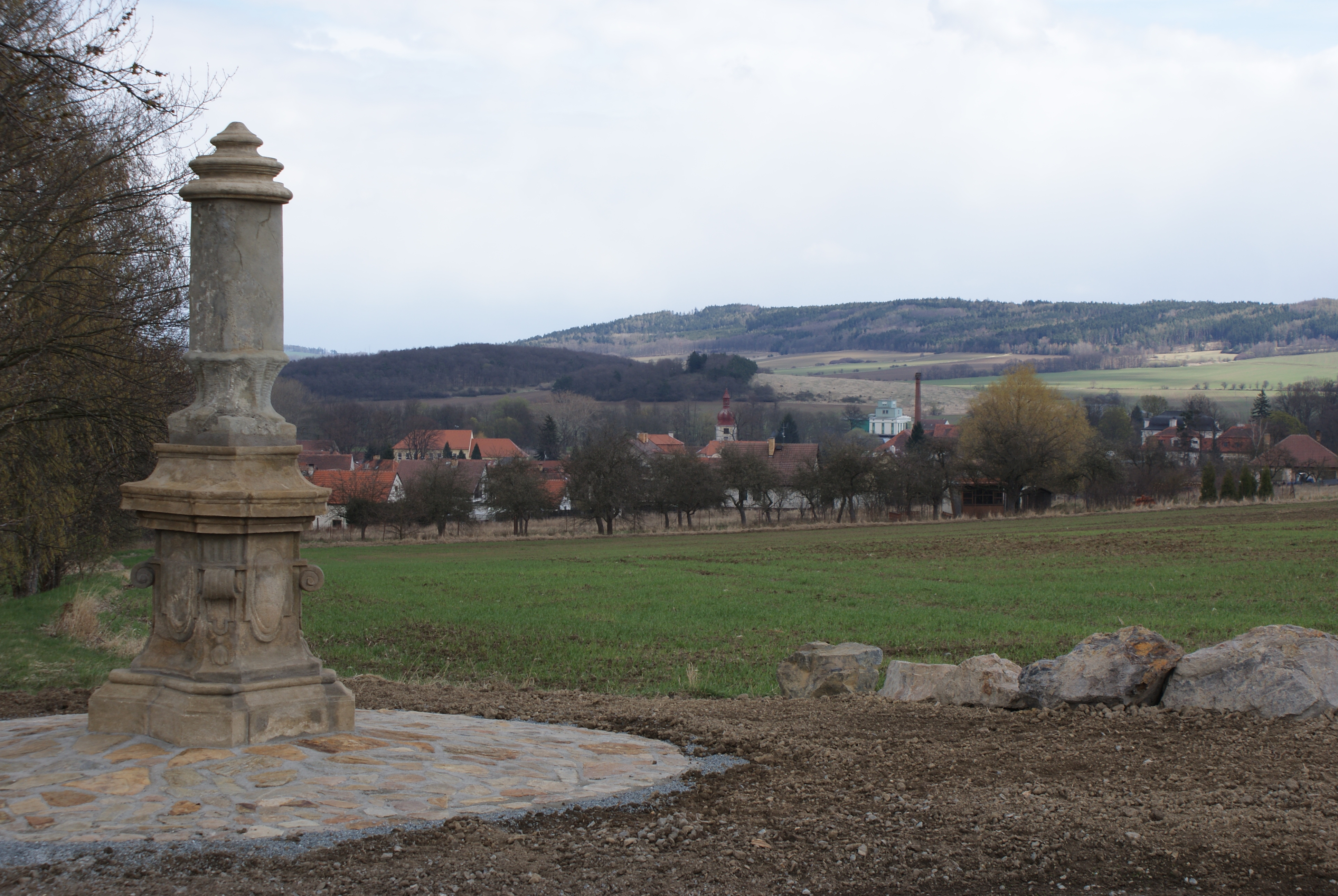 Dolní Lukavice, Plzeň-jih district, Czech Republic, general view.